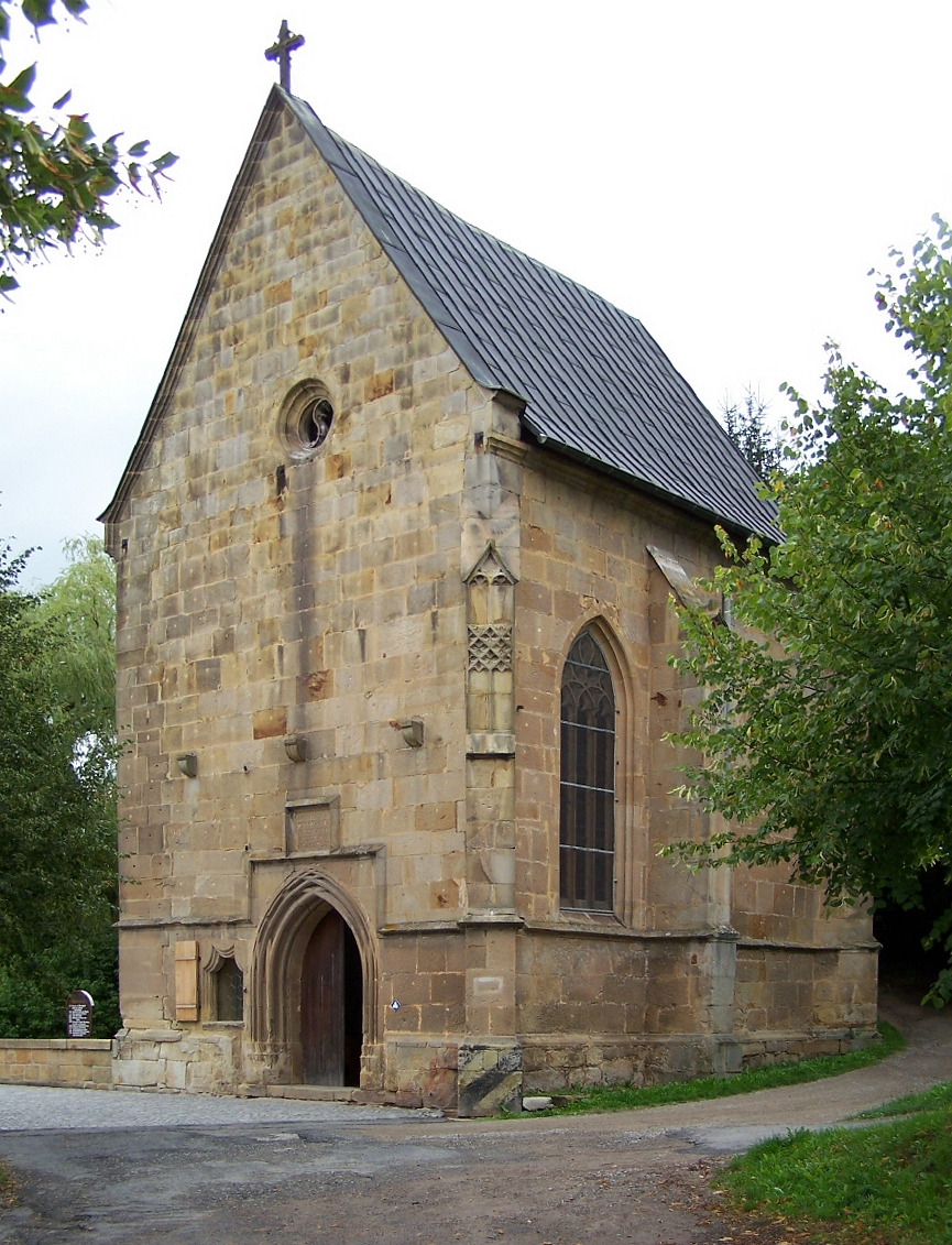 The Liborius chappel in Creuzburg.